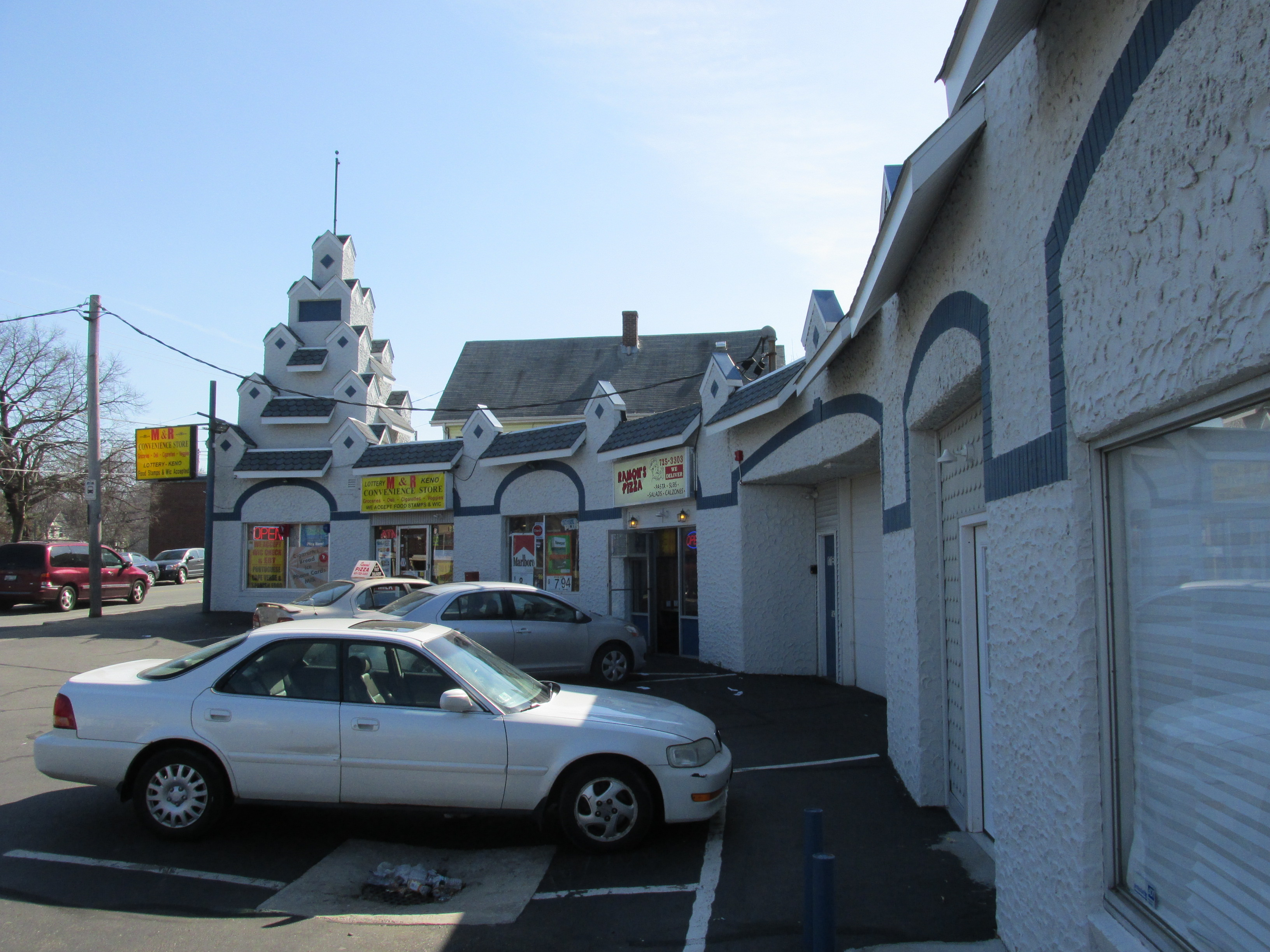 Gilbanes Service Center Building, Pawtucket Rhode Island